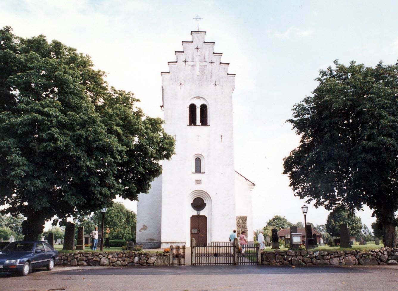 North Sandby Church and Churchyard, as released by image creator RistessonPlace: Hässleholm, Sweden